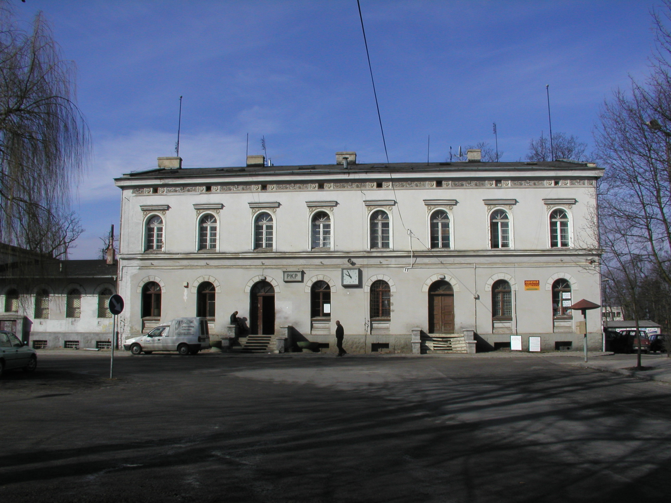 Railway station in Oborniki Śl. (Poland)